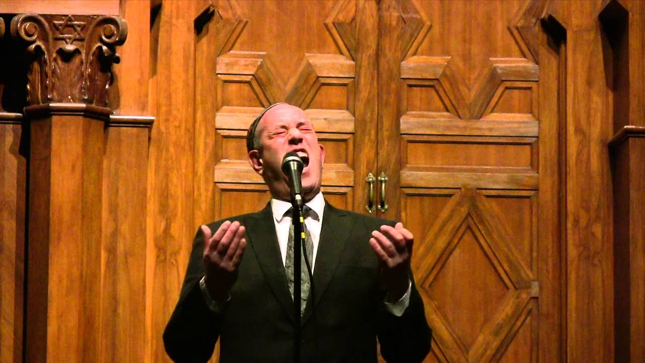 Glanville singing Yiddish song at the Kennedy Centre in Washington, DC.